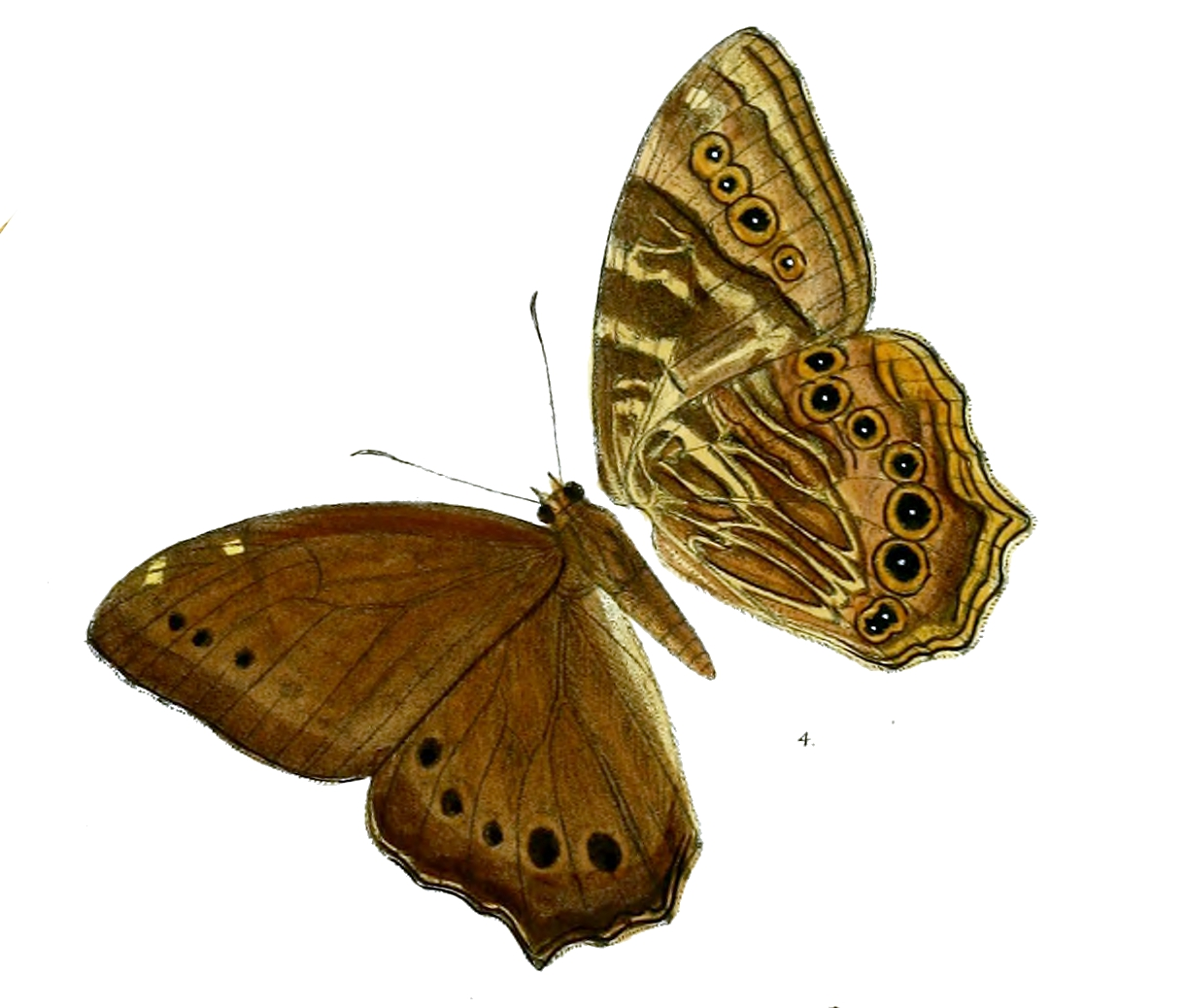 Neope yama yamoides